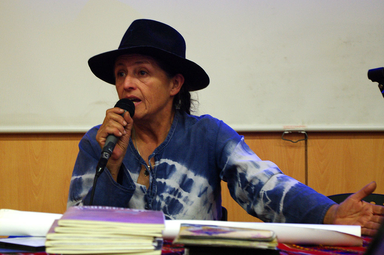 Silvia Rivera in a seminar about globalisation and indigenous rights in the northem of Chile